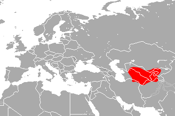 Bokhara Horseshoe Bat (Rhinolophus bocharicus) range